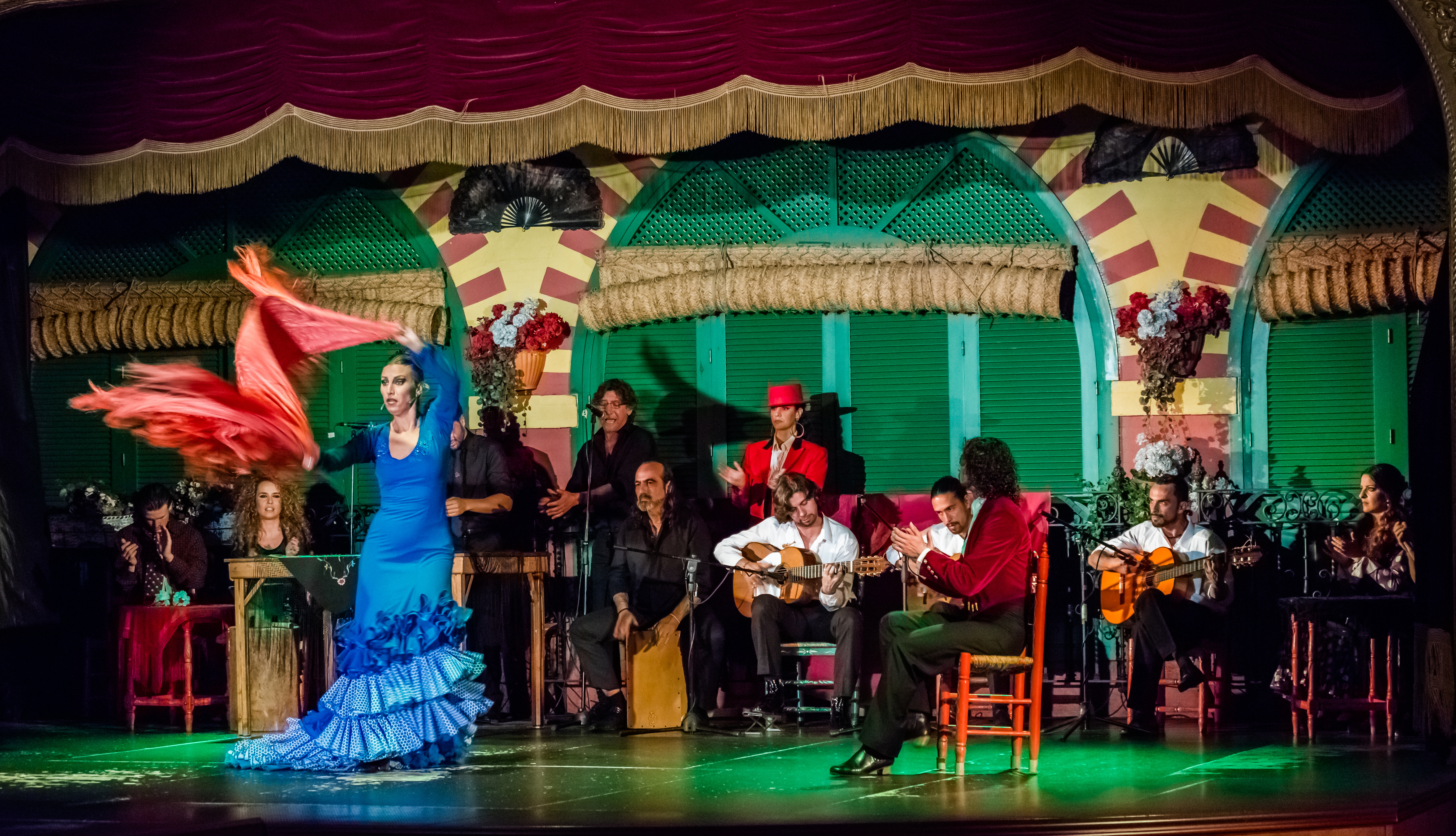 Flamenco performance in Palacio Andaluz, Sevilla, Spain